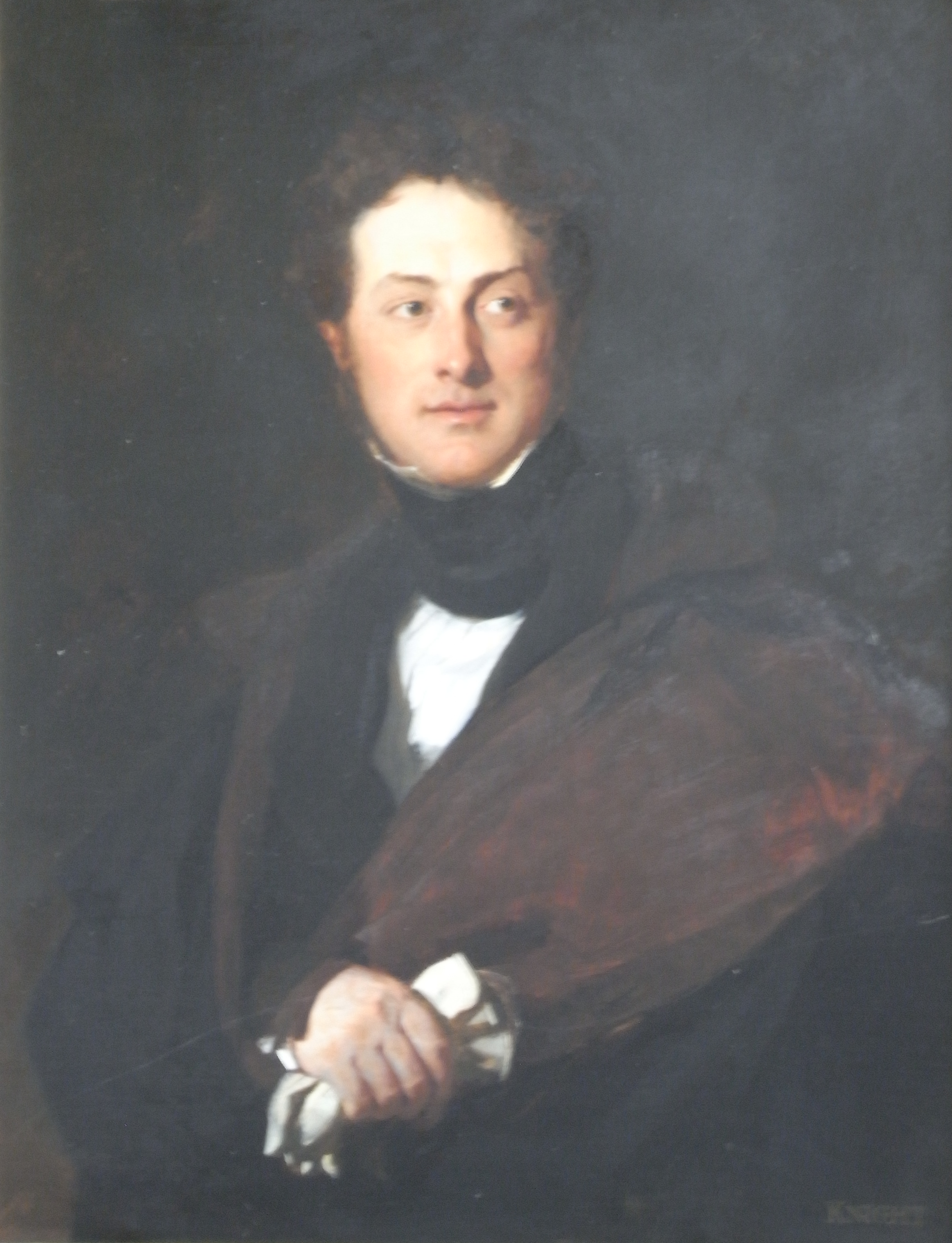 Col. Baldwin III Fulford (1801-1871), known as "Baldwin the Bad", a Justice of the Peace for Devon, Colonel of the 1st Royal Devon Yeomanry. He married Anna Isabella Giles, eldest daughter of Rev. J. Allen Giles, DCL, of Sutton, but died without progeny. His monument survives in Dunsford Church. As was the case with his great uncle Squire John, he was extravagant with his finances and by 1861 had accumulated over £60,000 of debts, which he fled the country to escape. The Fulford family's fortunes suffered from his legacy for the next century.